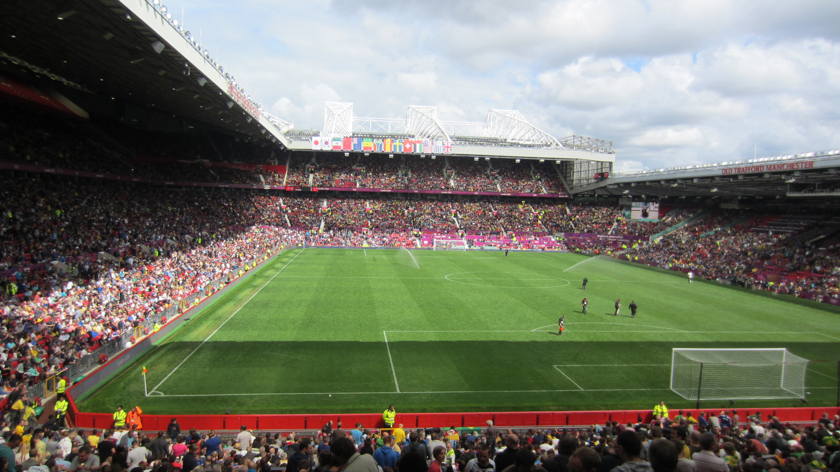 2012 Olympic Football - Old Trafford